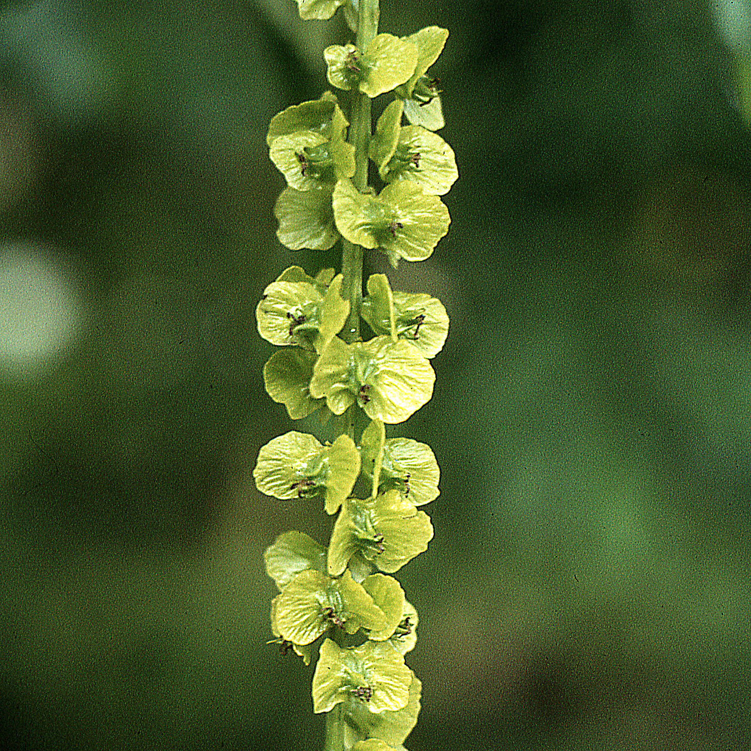 Pterocarya fraxinifolia, unripe fruit